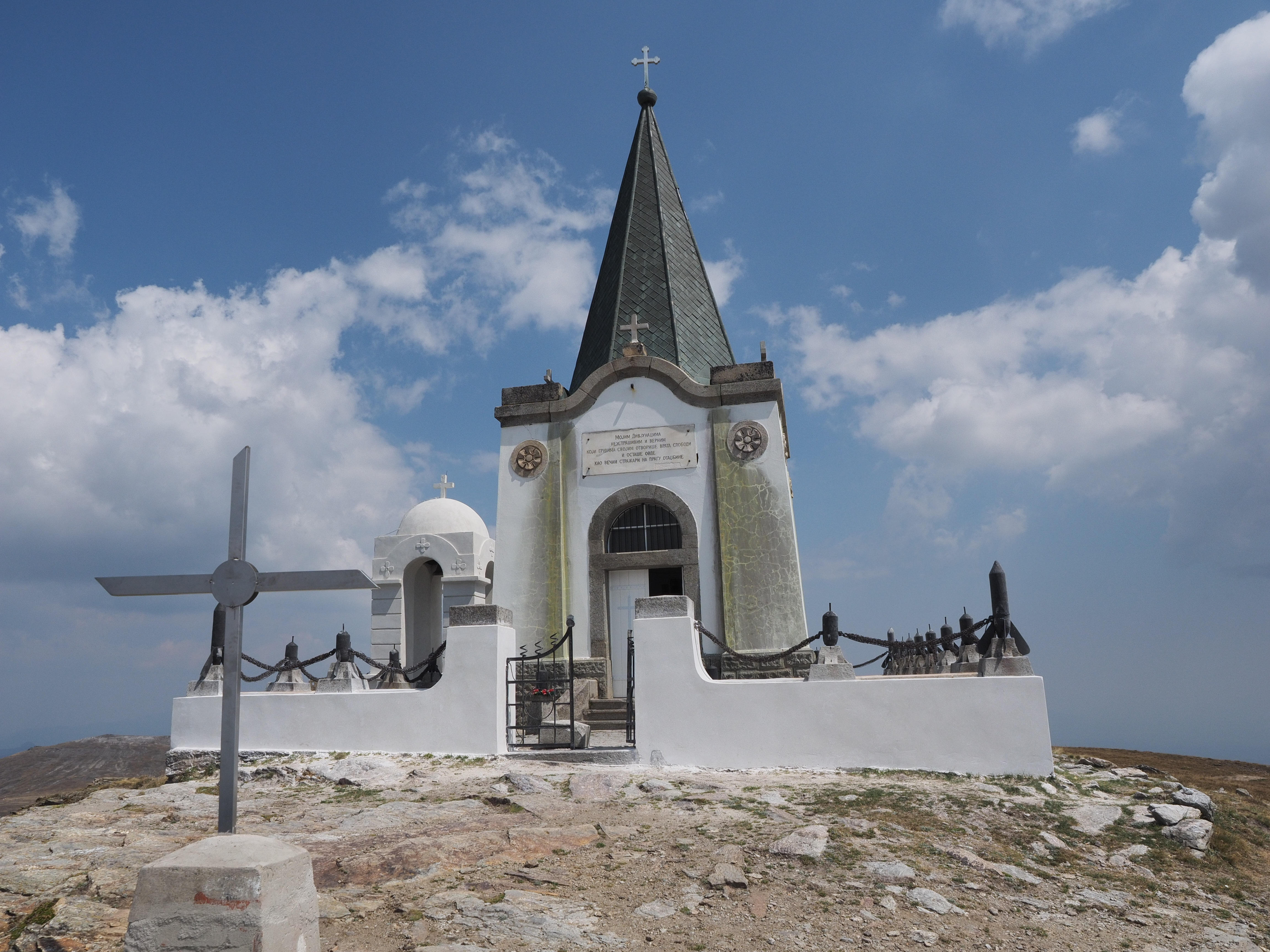 Serbian chapel to fallen soldiers on Kajmakčalan peak - 2521 m, place of fierce figthing in autumn of 1916. Peak was most important point in Macedonian front in 1st WW where in 1918 Serbian-French troops made biggest breakthrough which forced Bulgaria to capitulate. After entire Balkan front collapsed, Austro-Hungaria and Turkey (which was cut off from German railway supplies) capitulated too. Relicts of fierce figthing can be seen even today, bones, bullets, grenades, bunkers and trenches. Some 40 meters below the chapel is a morgue with skulls and bones found on the mountain.